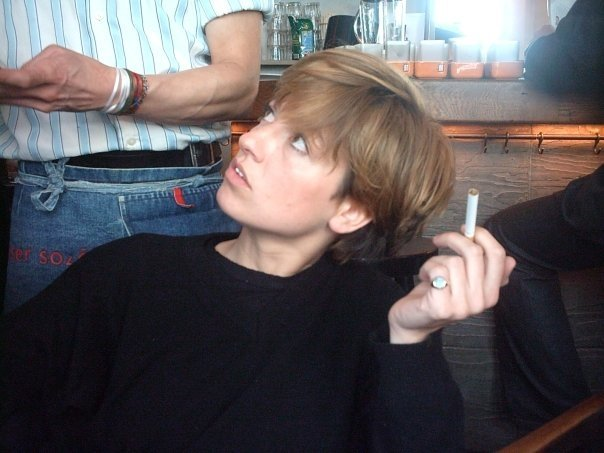 Filipa Ramos, during the 5th Berlin Biennale opening.